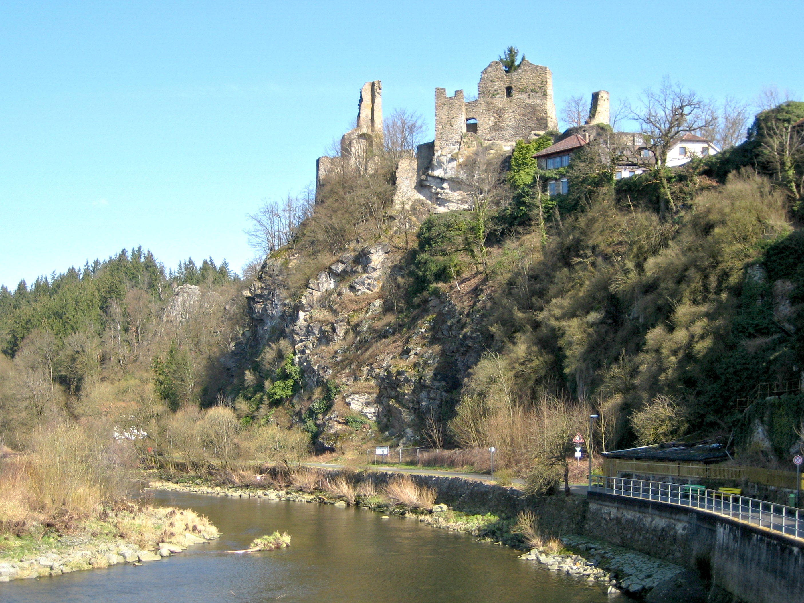 Castle ruin in Passau (Hals)